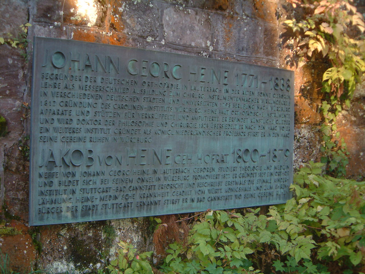 Table commemorating Johann Georg Heine and Jakob Heine in Lauterbach